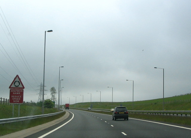 A4060 To Dowlais Top The Ordnance Survey Map shows the old road layout where the A4060 is depicted as a single carriageway. The road was Dualled in 2004 to tie in with the A465 heads of the valleys road dualling from Dowlais top to Ebbw Vale.